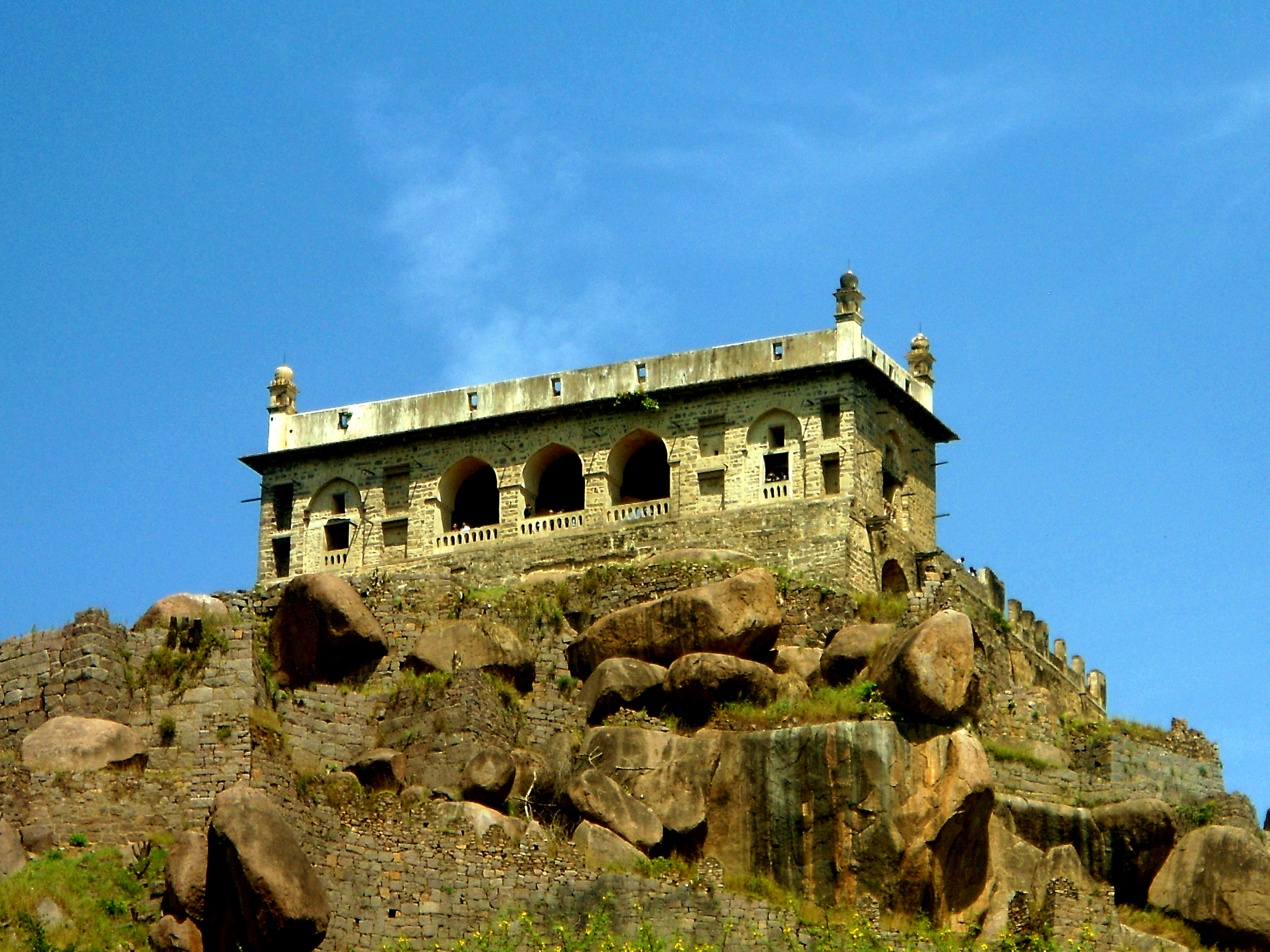 Golconda Fort is located on a granite hill of 120 meter altitude, Hyderabad